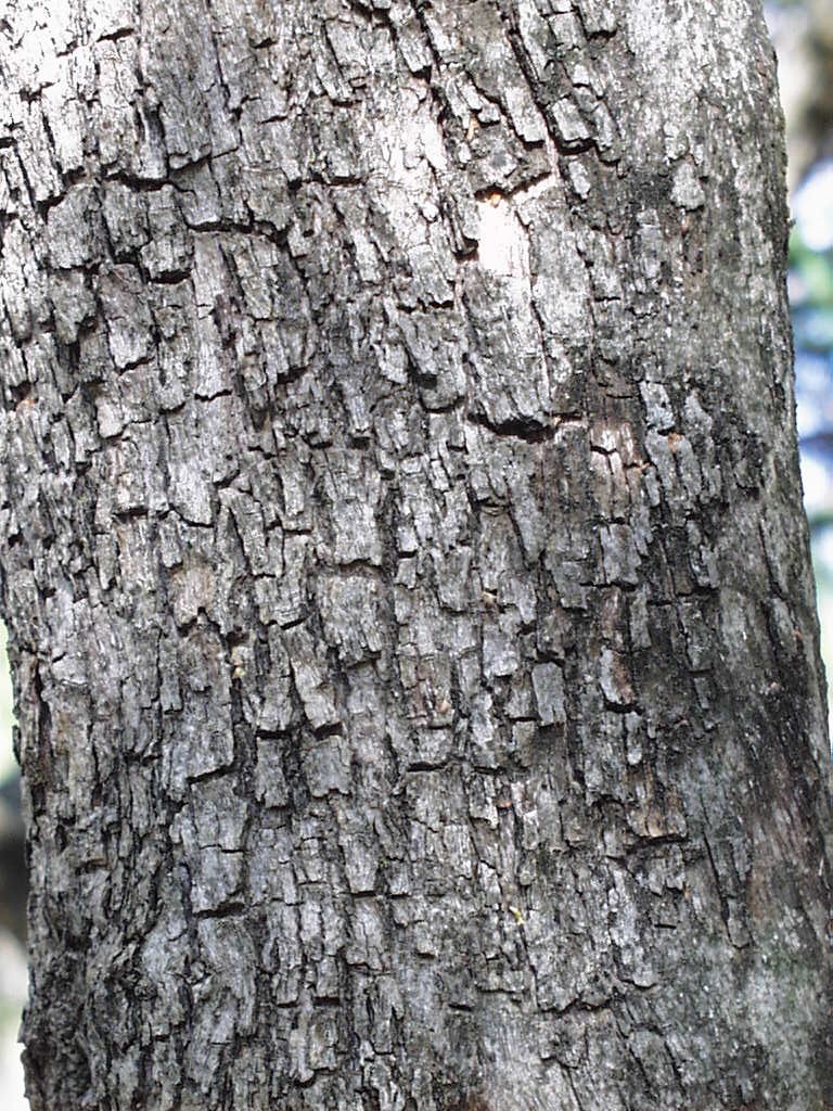 Stem and bark of a Buffalo thorn in the Magaliesberg, South Africa